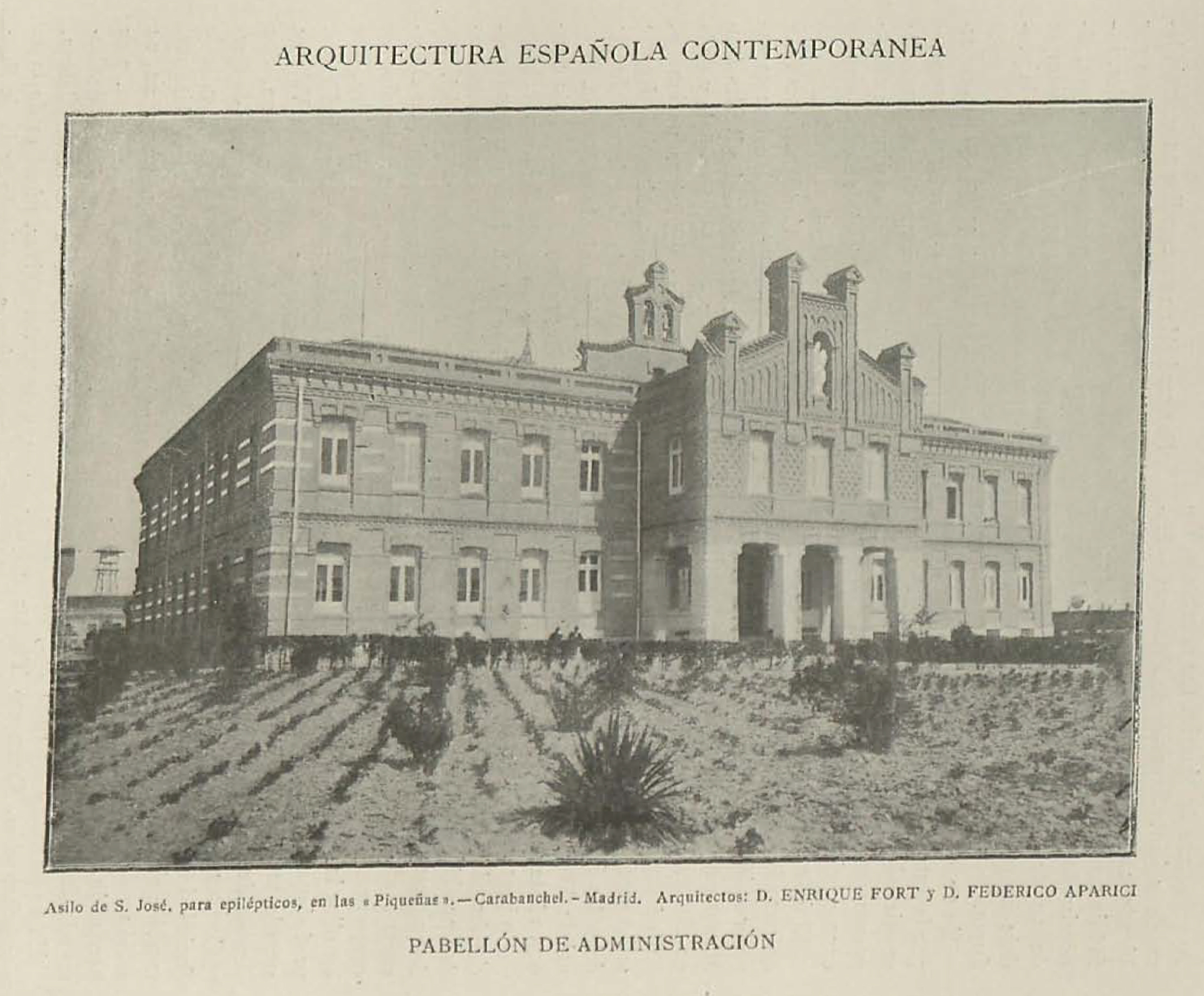 Pabellón de administración. Asilo de San José para epilépticos, en las Piqueñas, Carabanchel.